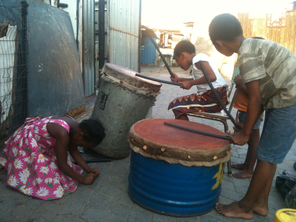 Children from Alexandra township in South Africa playing drums